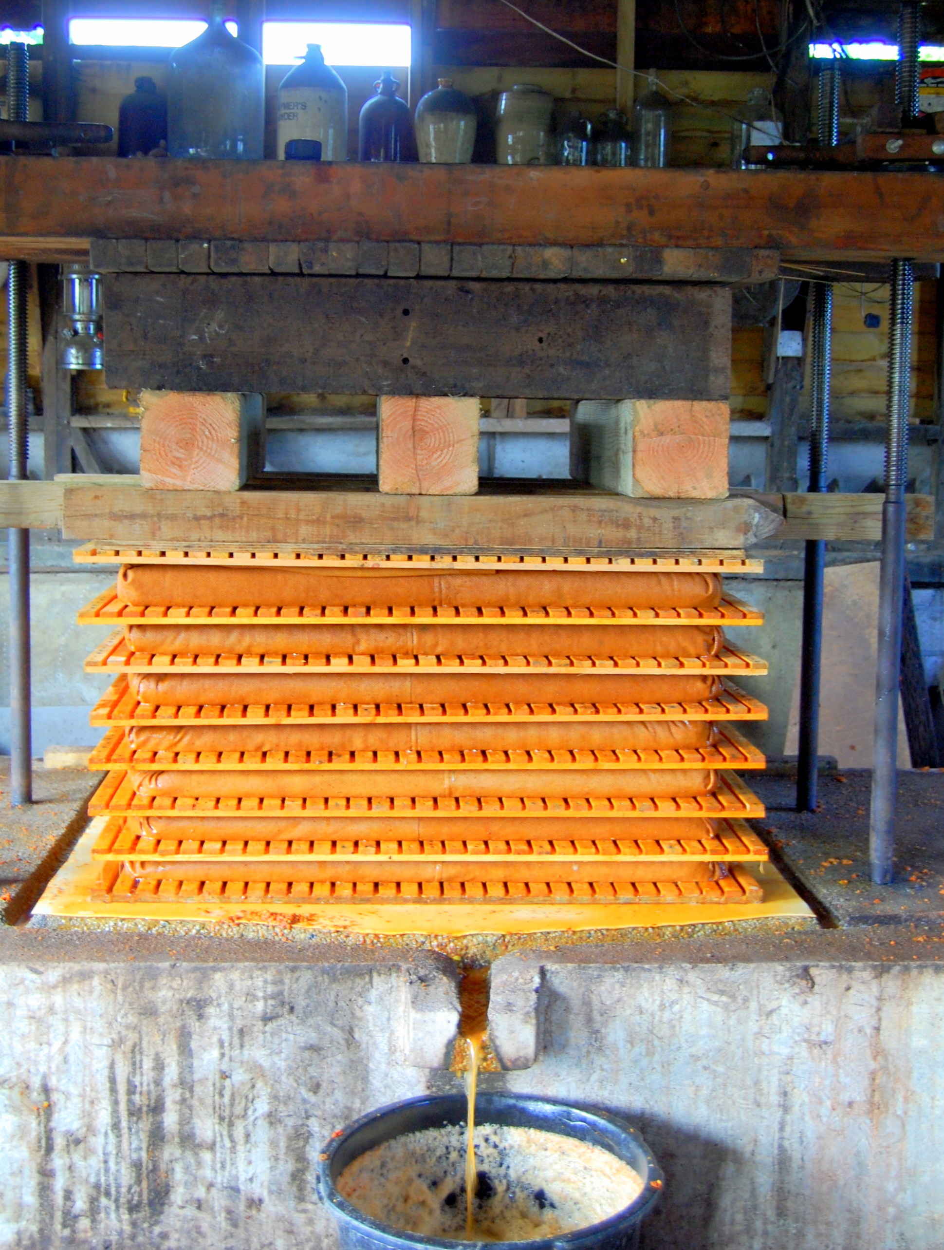 Cider press at Haywood Farm St Mabyn Cornwall UK